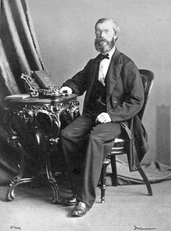 Photograph of James Ferrier, Montreal, QC, 1866, by William Notman (1826-1891), 1866, Silver salts on paper mounted on paper, Albumen process, 8.5 x 5.6 cm